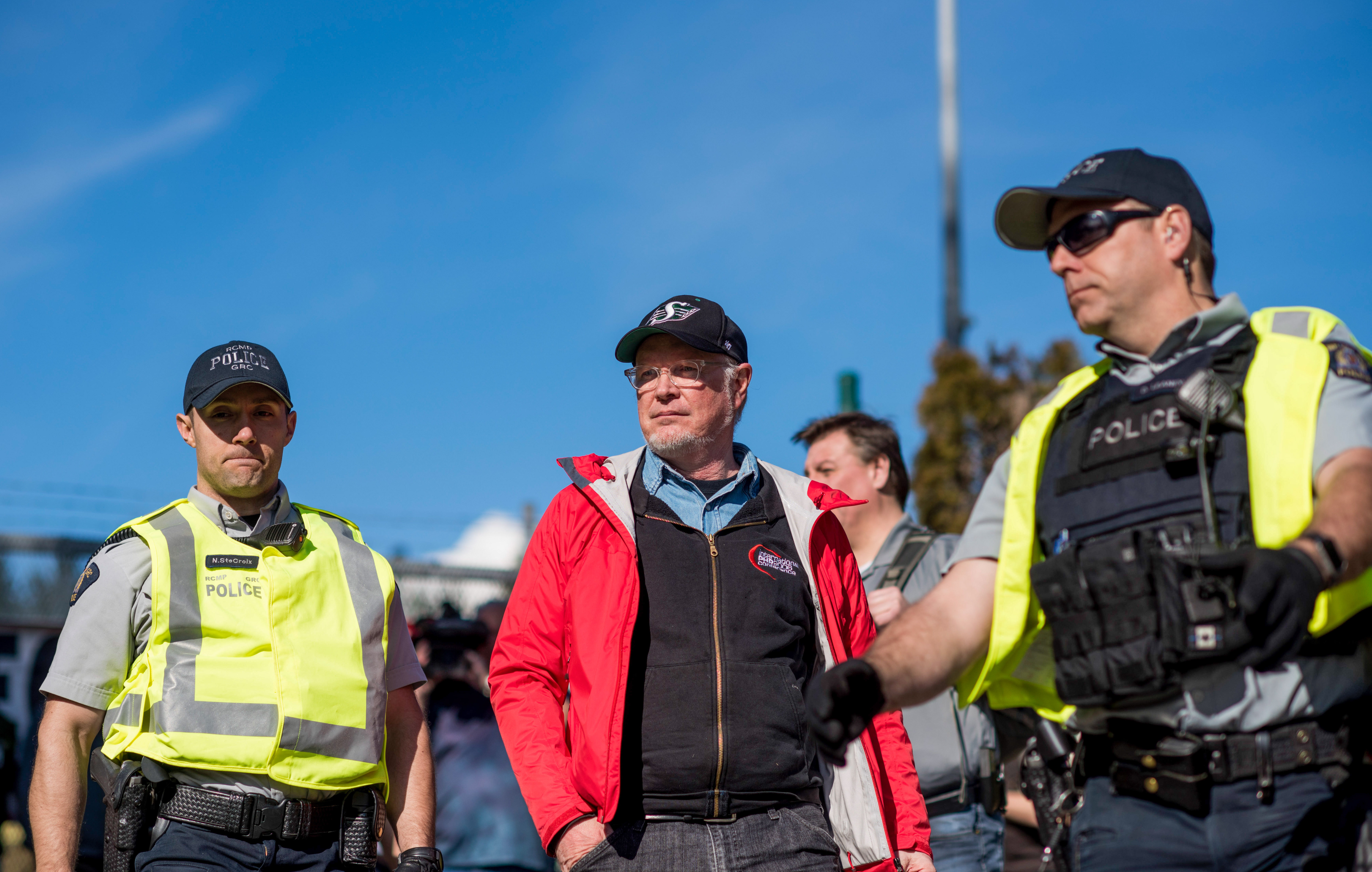 Tim Bray being arrested on March 17, 2018, at the “Protect the Inlet” protests at the gate of the Kinder Morgan facility on Burnaby Mountain